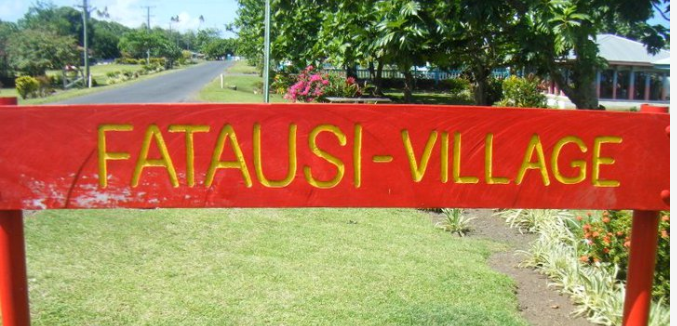 Fatausi Village, Savaii